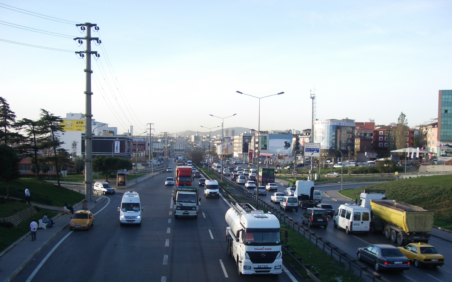 E 5 (Istanbul)